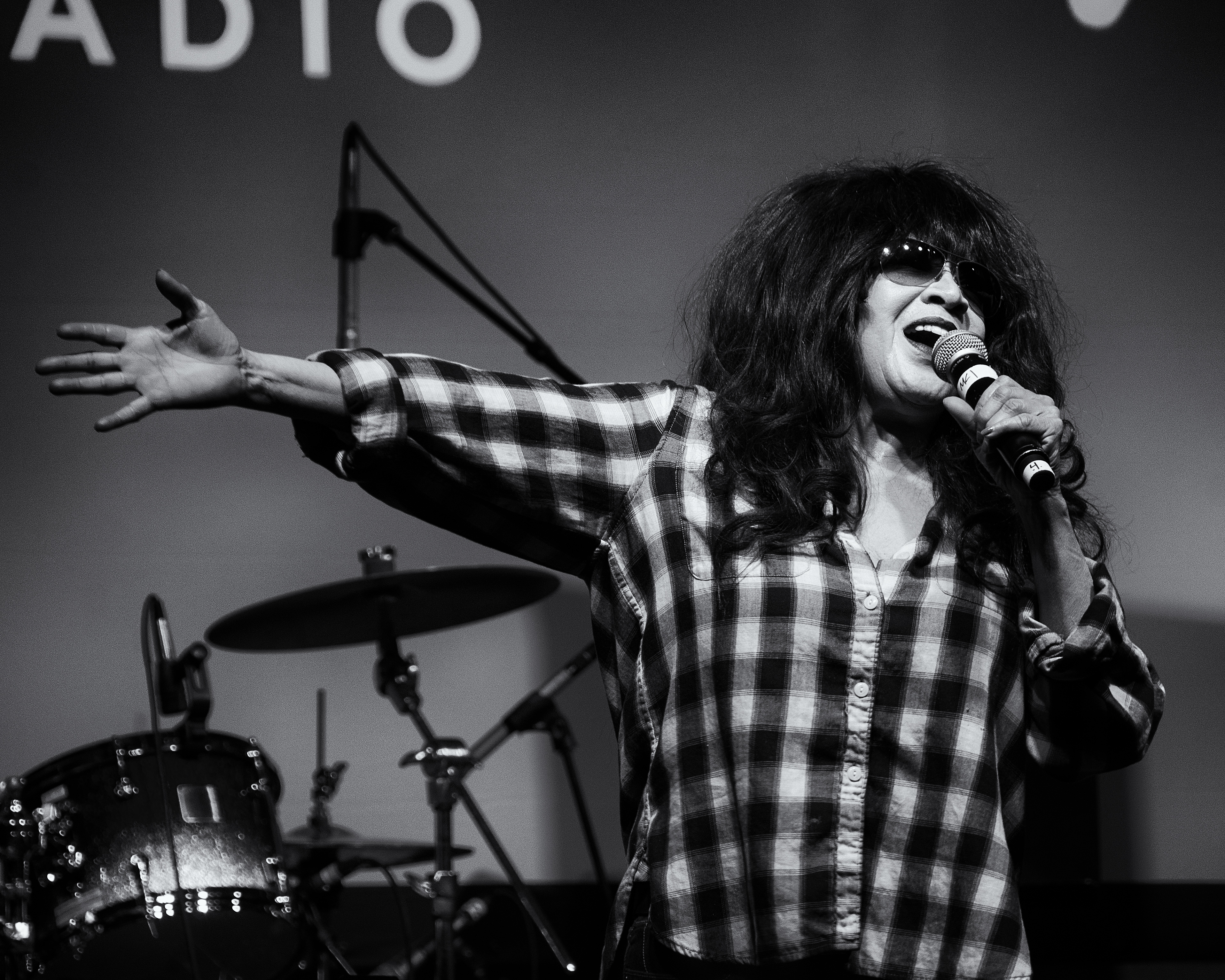 Ronnie Spector performing Be My Baby during Live with Cousin Brucie on Sirius XM at The Fest for Beatle Fans, February 2014